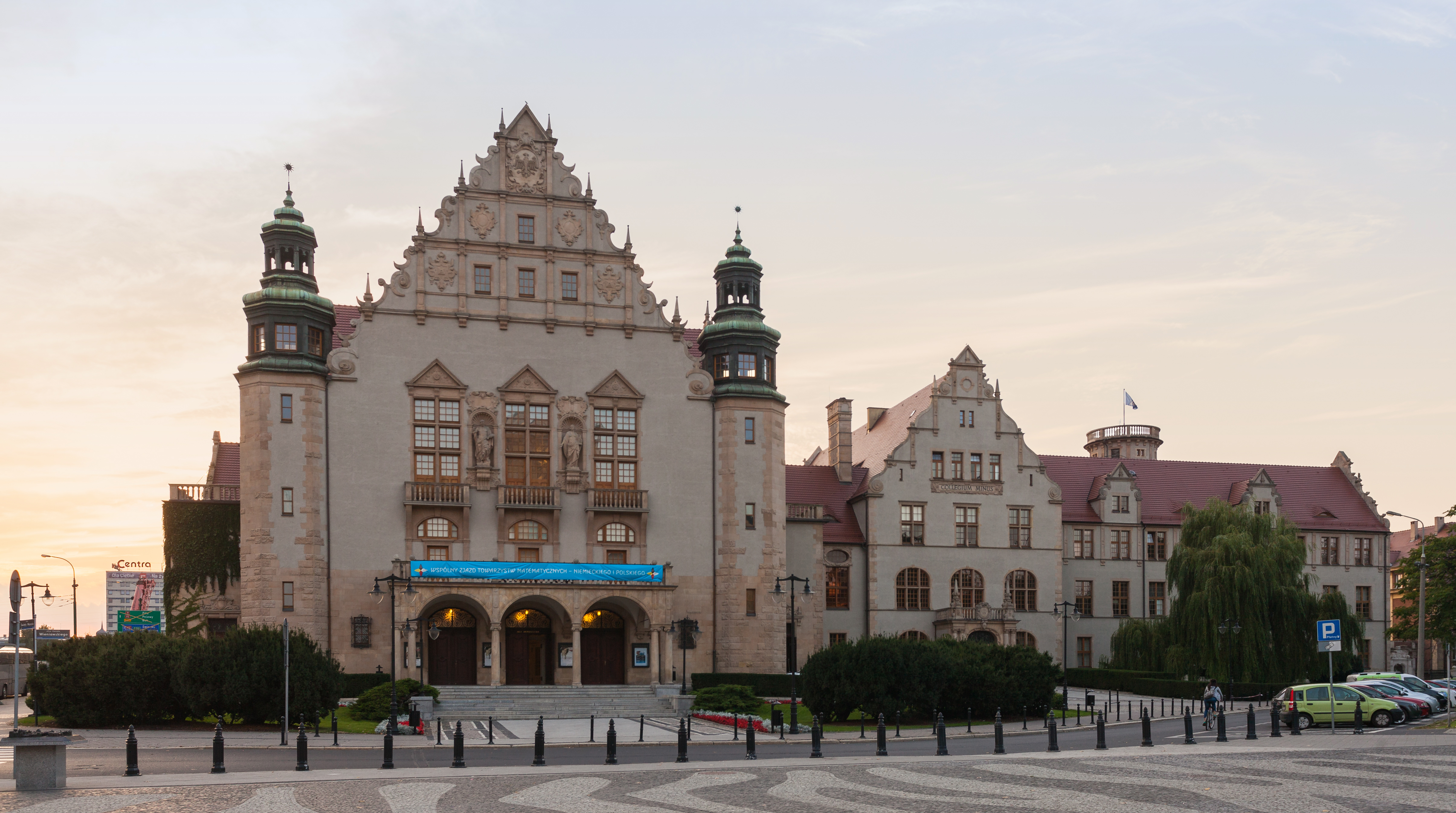 Collegium Minus, Poznan, Poland